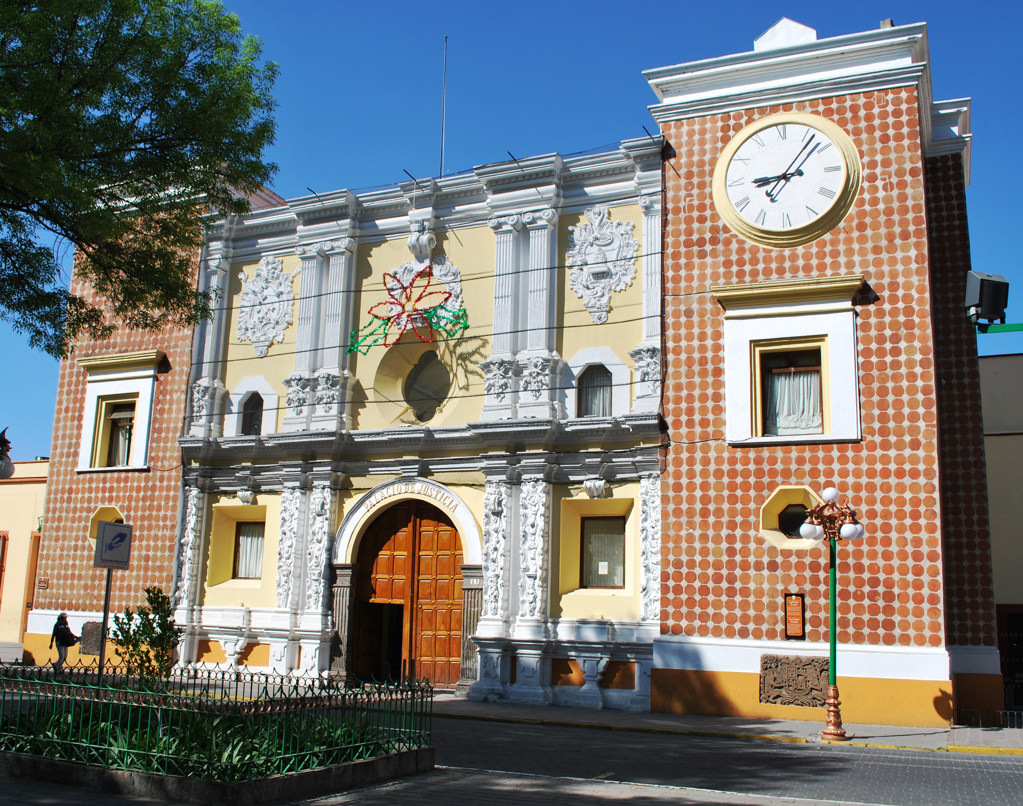 View of the Palace of Justice, former Capilla de Indios in Tlaxcala